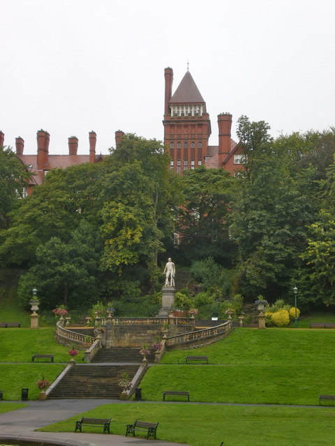 Miller Park The statue is the Earl of Derby Memorial. The building is East Cliffe (Council Offices), once the Park Hotel.